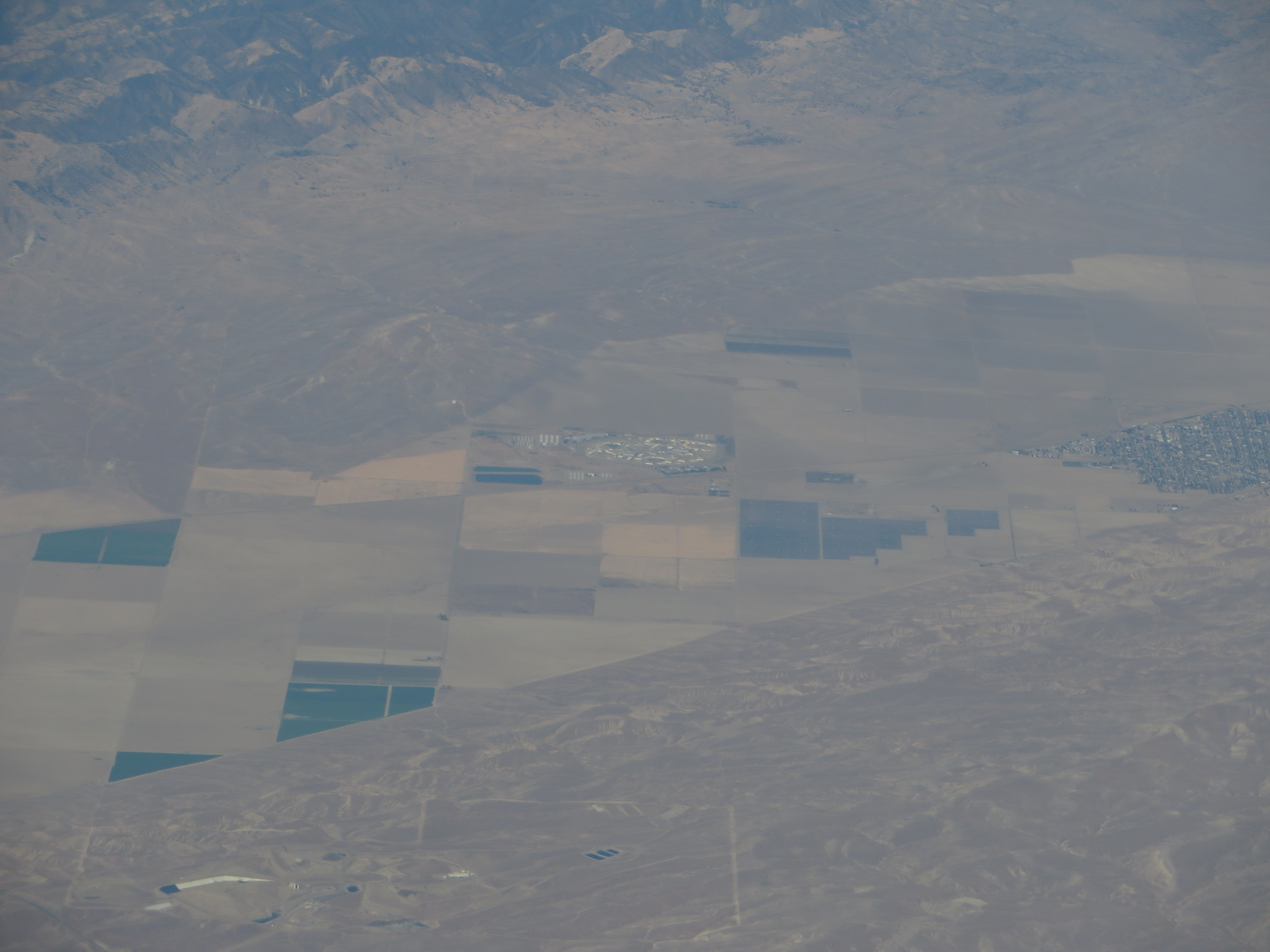 Avenal State Prison (ASP) is a male-only state prison in the city of Avenal, Kings County, California. The structures on ASP's 640 acres (260 ha) include "17 open dorm buildings, six 200-bed open dorm E-bed buildings, six converted gymnasiums, a 100-cell administrative segregation unit, and a 10-bed firehouse." It is a "low-medium security" or "Level II" prison with "open dormitories with secure perimeter fences and armed coverage." As of Fiscal Year 2006/2007, ASP had 1,603 staff and an annual budget of $136 million. As of September 2007, it had a design capacity of 2,920 but a total institution population of 7,582 (the largest among California state prisons).[4] ASP has been described as the "most overcrowded prison in the state [of California]"; its September 2007 occupancy rate was 259.7 percent. Inmate programs include: Narcotics anonymous, Alcoholics anonymous, SAP, autobody, metal fabrication, plumbing and electrical, PIA furniture, warehouse and egg production.